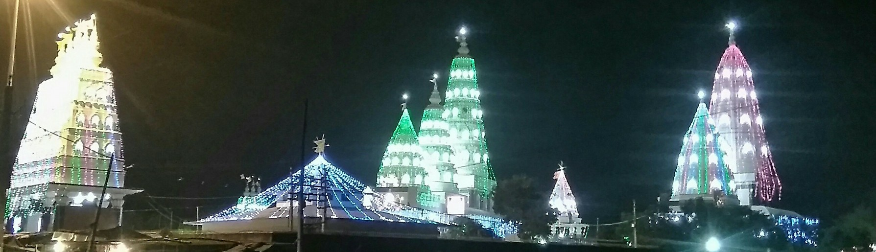 Photograph of Ashokdham temple taken during mahashivratri celebration